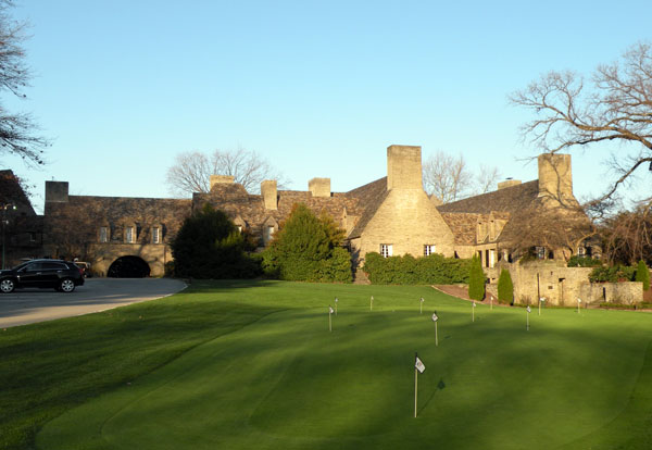 Picture of Longue Vue Club and Golf Course, located at 400 Longue Vue Drive, Verona, Penn Hills Township, Allegheny County, Pennsylvania, on November 22, 2009. Longue Vue Club was founded in 1920. The clubhouse was designed by Benno Janssen, and constructed by Edward A. Wehr. It was completed in December 1923, in use by 1924, but not fully finished until 1925. Ralph E. Griswold was the landscape architect, and Robert White was the original designer. Over the years, Geoffrey Cornish and Ron Forse also contributed to the design of the course. Longue Vue Club and Golf Course is listed on the National Register of Historic Places.